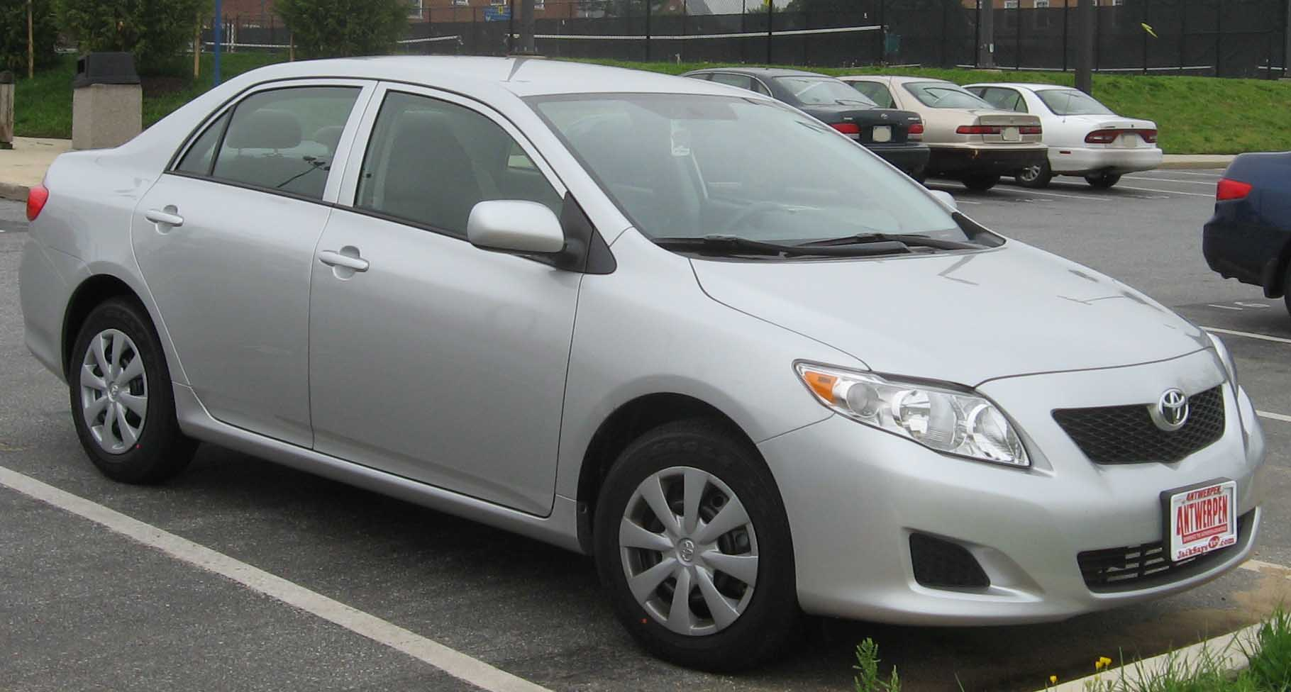 2009 Toyota Corolla photographed in College Park, Maryland, USA.